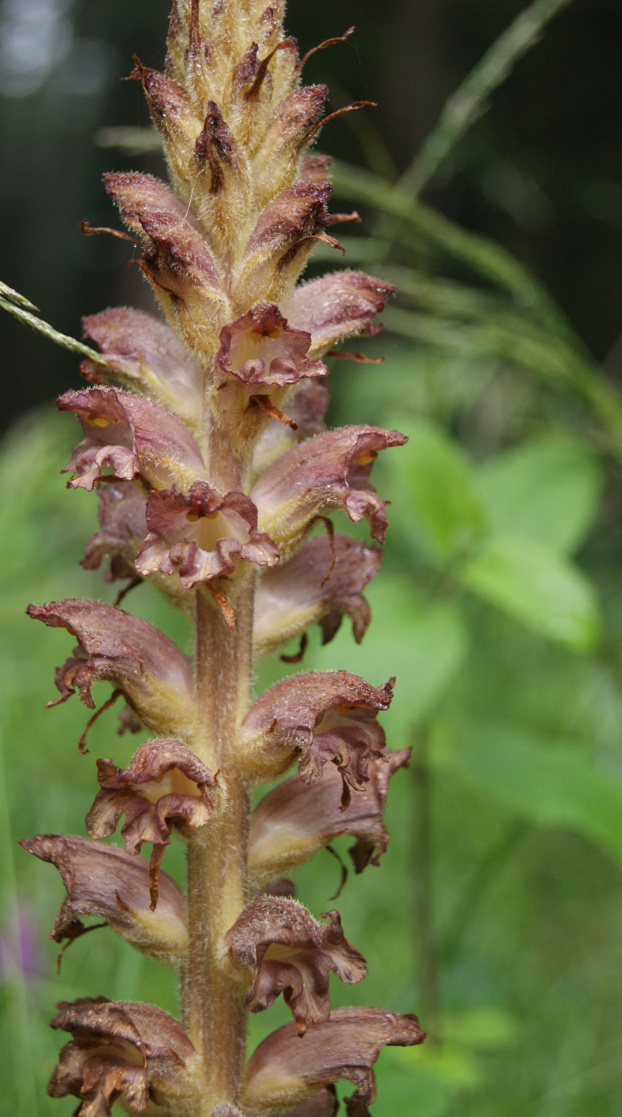 Orobanche rapum-genistae, 57258 Freudenberg (Niederndorf), Germany.